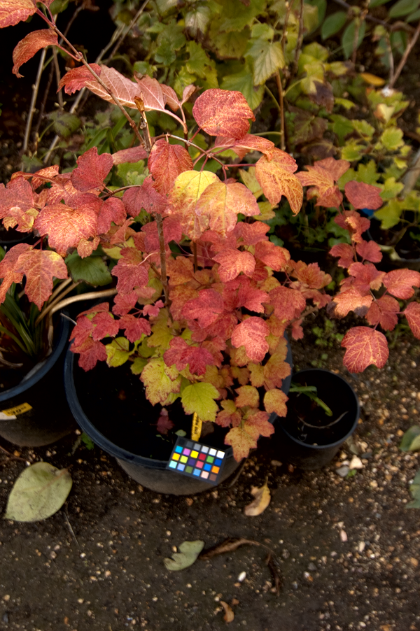 Viburnum trilobum in Napa, CA, on November 5, 2014, when nights reached about 40 degrees as the low.